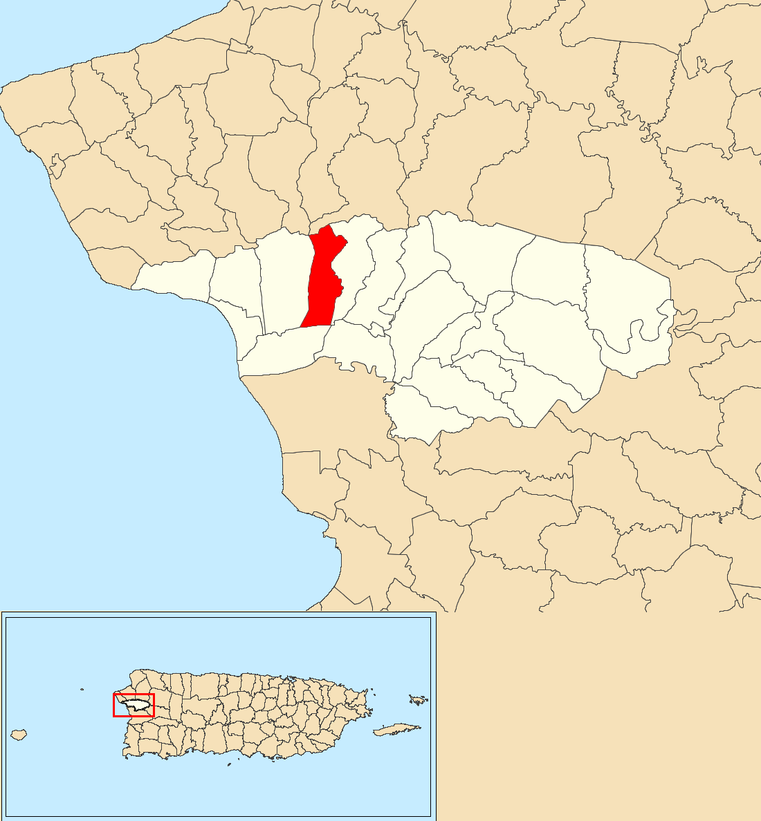 Caracol, Añasco, Puerto Rico locator map